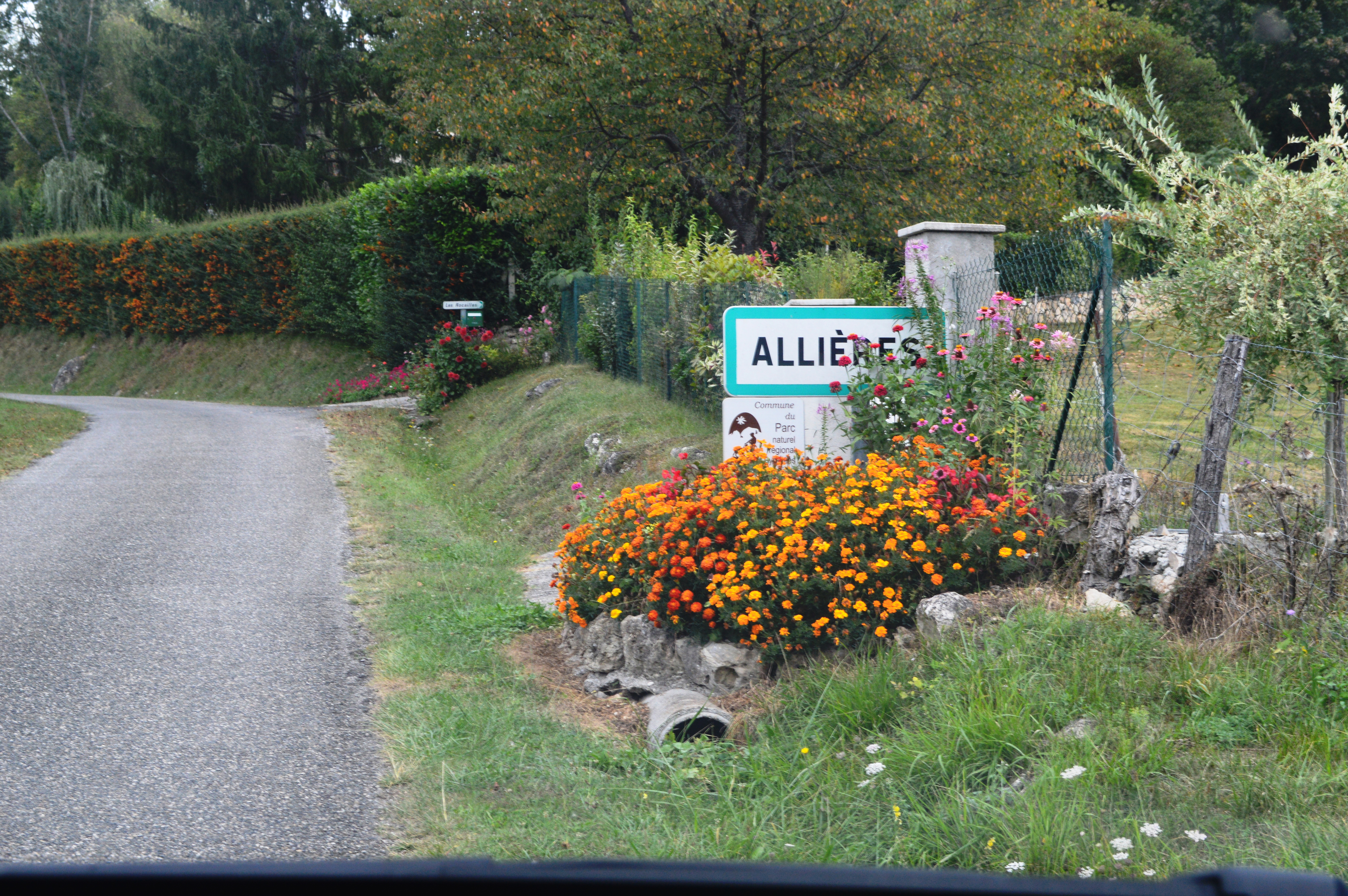 The entry to Allieres